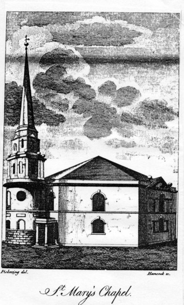 Engraving of St Mary's Chapel, Whittall Street, Birmingham, England, from William Hutton, A History of Birmingham (2nd Edition, 1783). It was built about 1774 and demolished in 1925.[1]